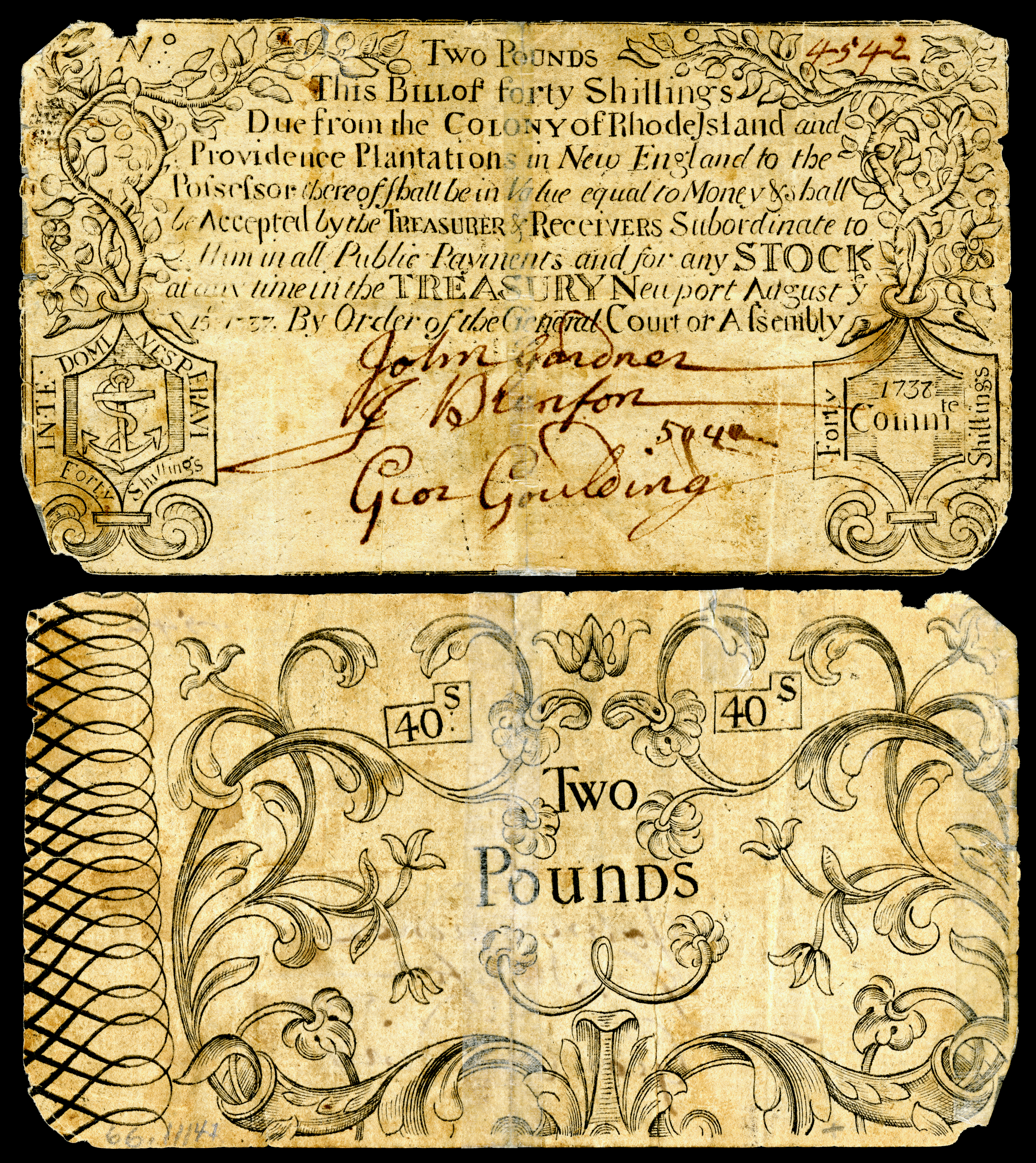 £2 Colonial currency from the Colony of Rhode Island. Signed by John Gardner, Jahleel Brenton, and George Goulding. Printed by William Claggett. The original issue date present in the text of the note (1737) has been re-dated (1738) on the lower right obverse.(Friedberg Colonial ref# RI-26a).